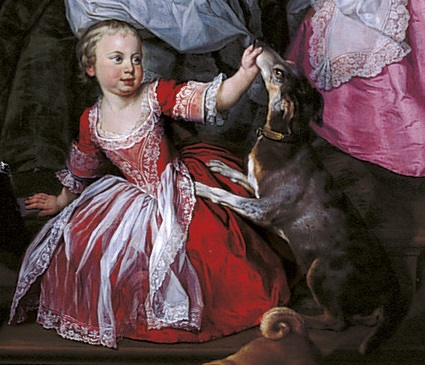 From File:The Family of Frederick, Prince of Wales.jpg